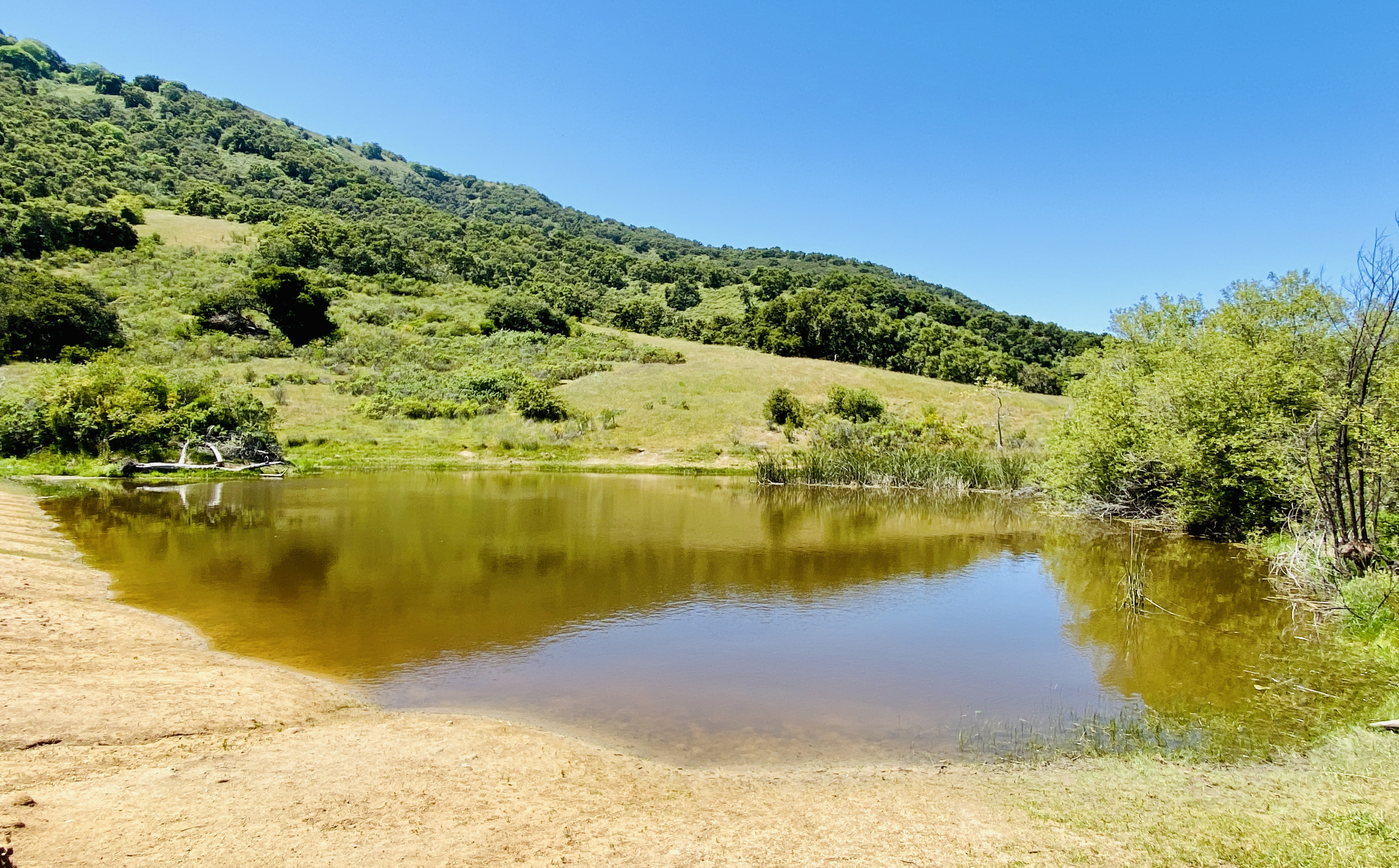 This is a picture of the Mesa Pond at the Garland Ranch Regional Park.